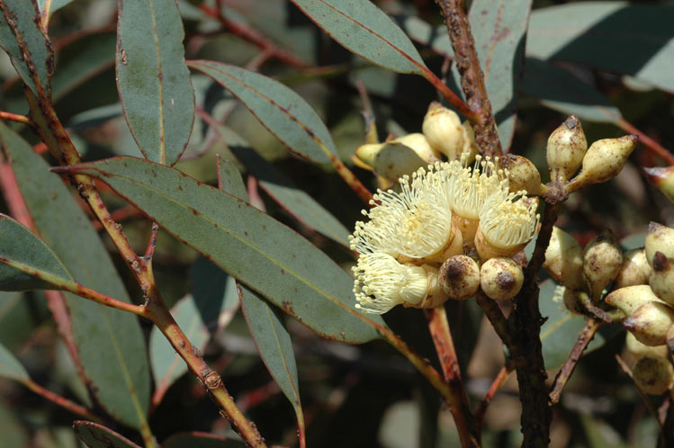 Flower buds and flowers of Eucalyptus semiglobosa in the Mount Annan Botanic Gardens, Campbelltown, New South Wales